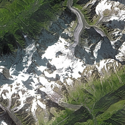 Mont-Blanc by Spot Satellite